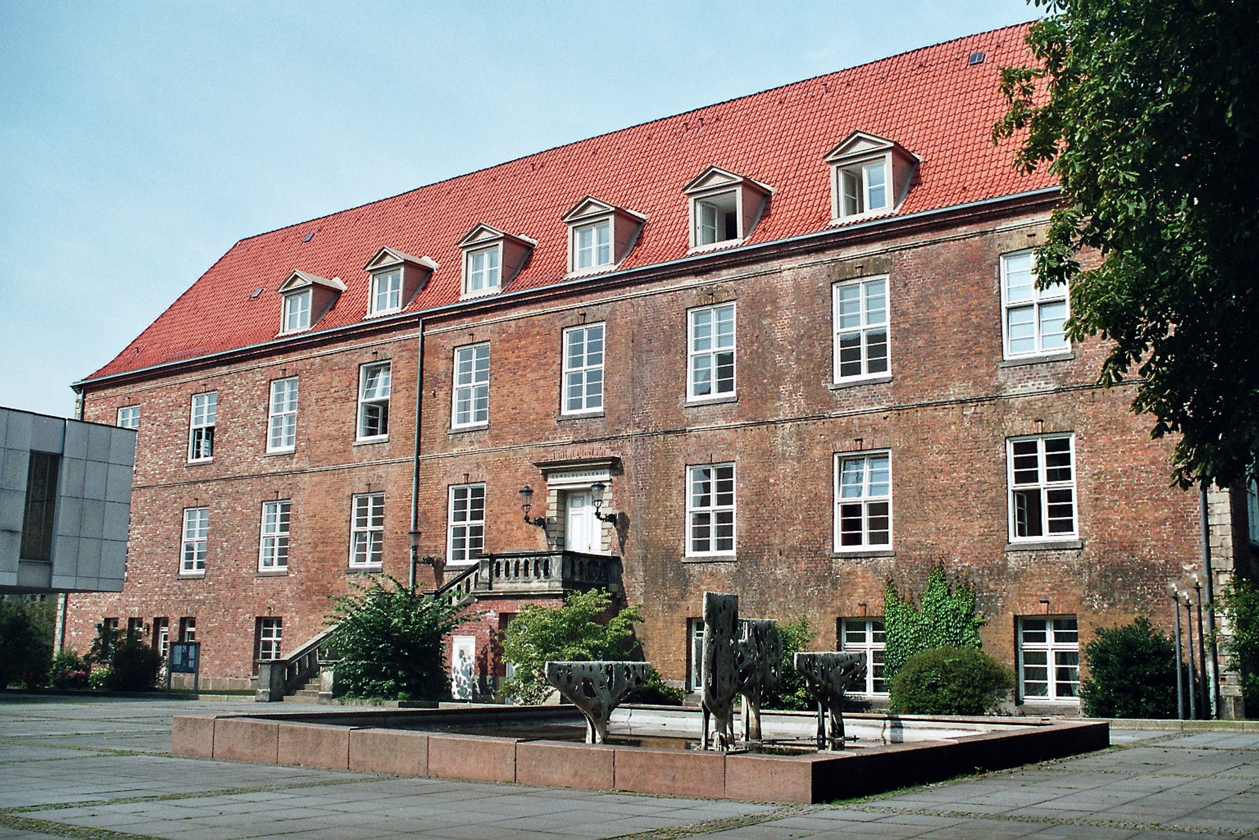 Kiel, the palace This is a photograph of an architectural monument. .3